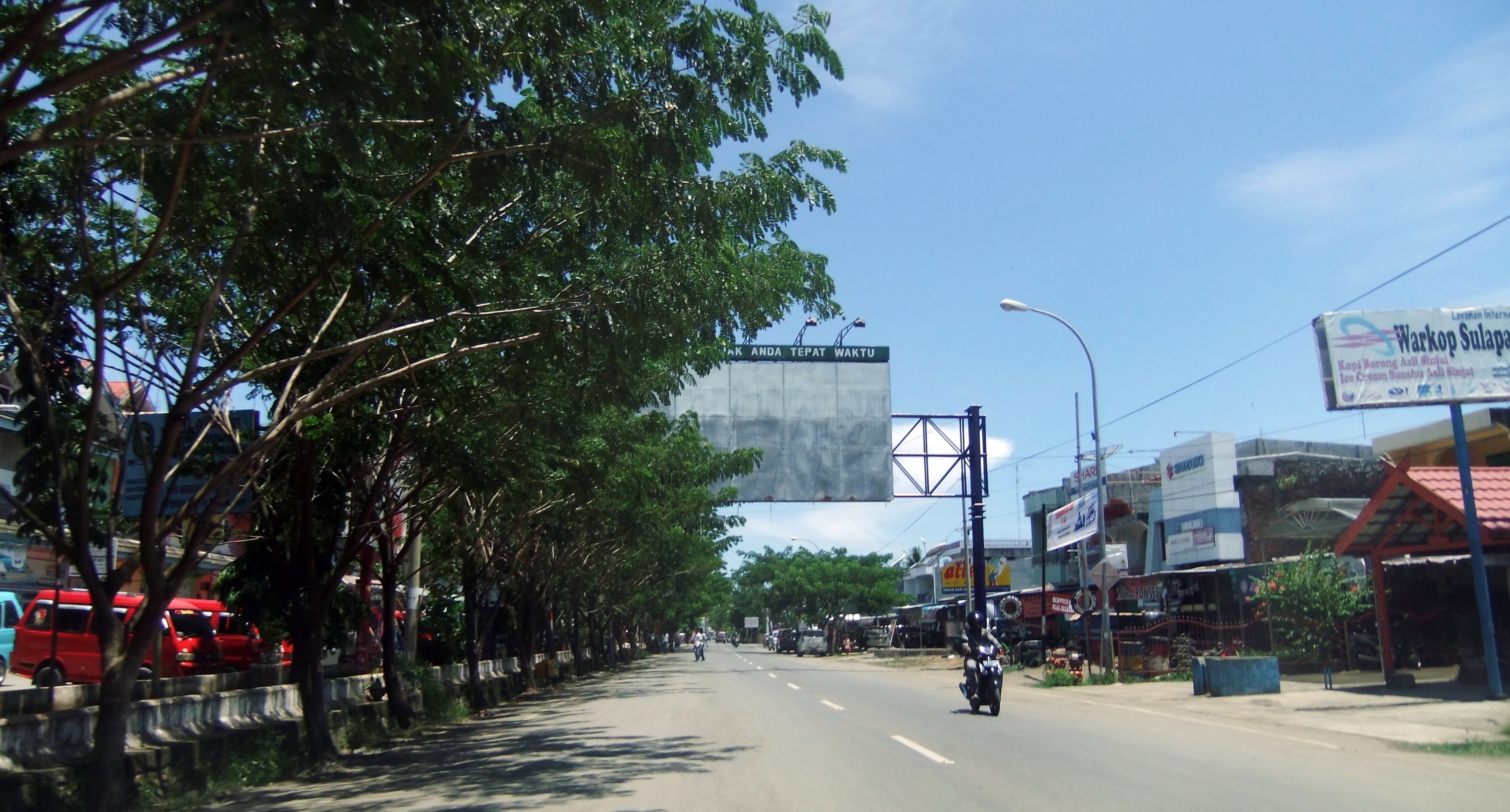 Sinjai Regency South Sulawesi, Indonesia